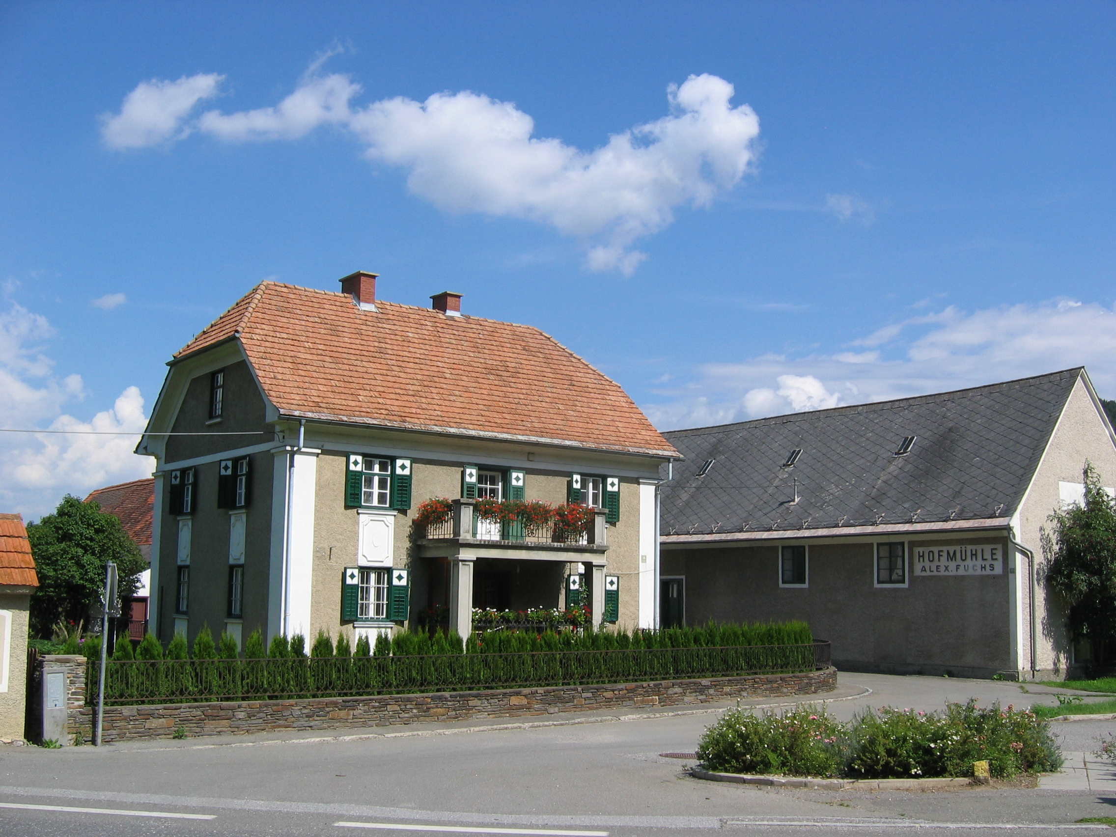 Eppenstein, Hofmühle